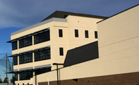 Edmonds Community College's Mukilteo Hall, home to pre-college programs (high school completion, ESL, adult literacy), math center, tutoring and on campus theater